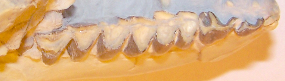 The lower jaw of the prehistoric camelid Poebrotherium wilsoni showing the dentition. The incisors are missing and the canines are only partially present. Poebrotherium is from the western United States, and dates from the Oligocene period, approximately 35 million years ago. This specimen is in a private collection. I have the right to photograph and distribute this image.